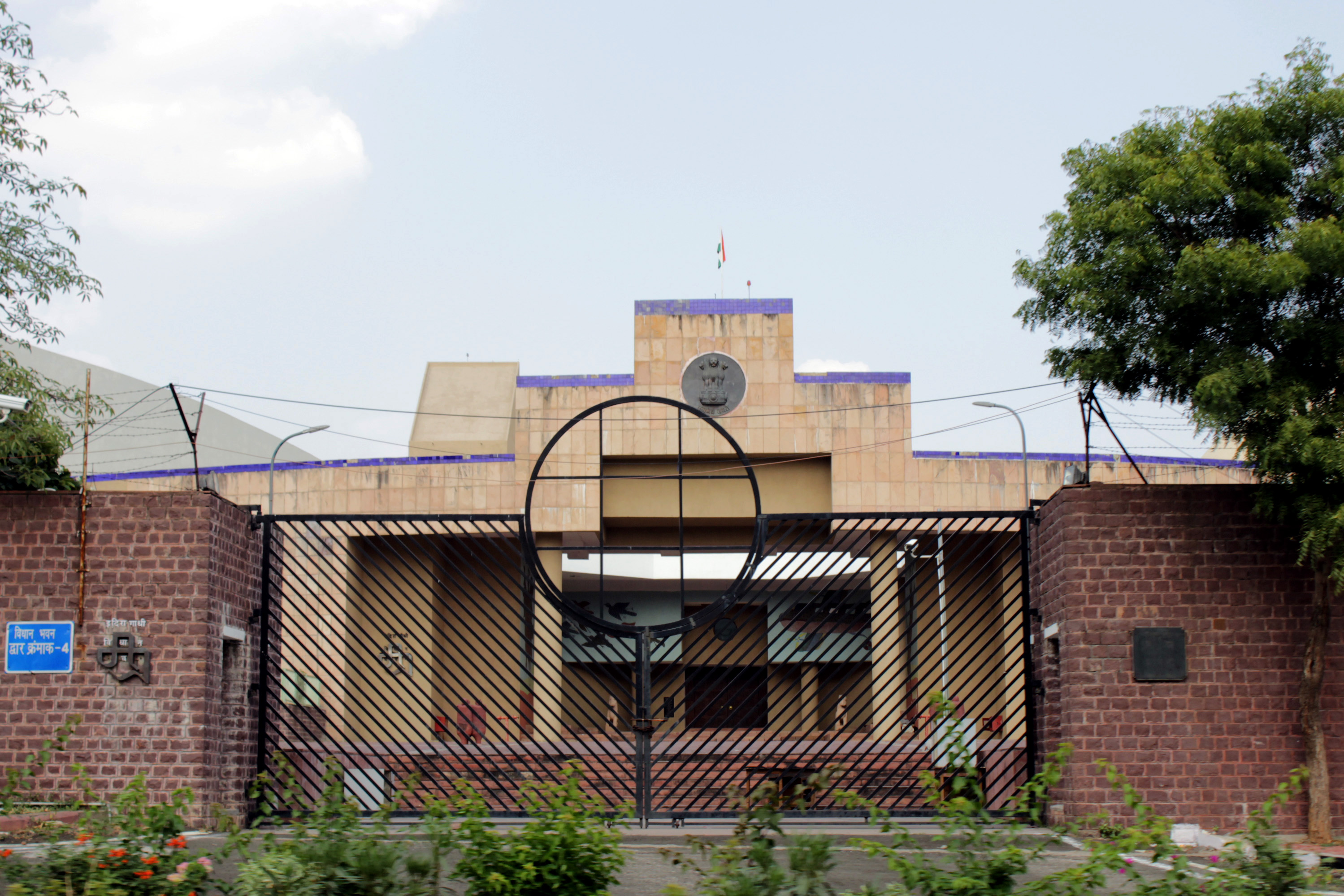 Madhyapradesh Legislative Assembly